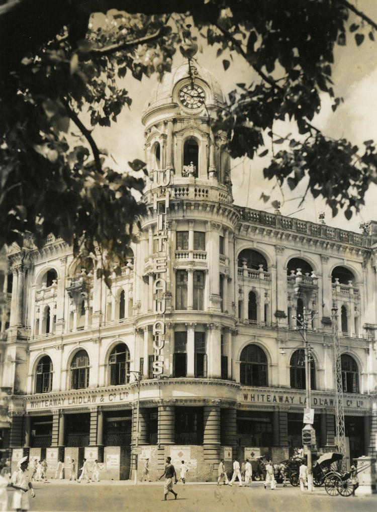 Whiteaway & Laidlaw department store. Chowringhee Road, Calcutta, 1945. Subject: "architecture, urban life, commerce"